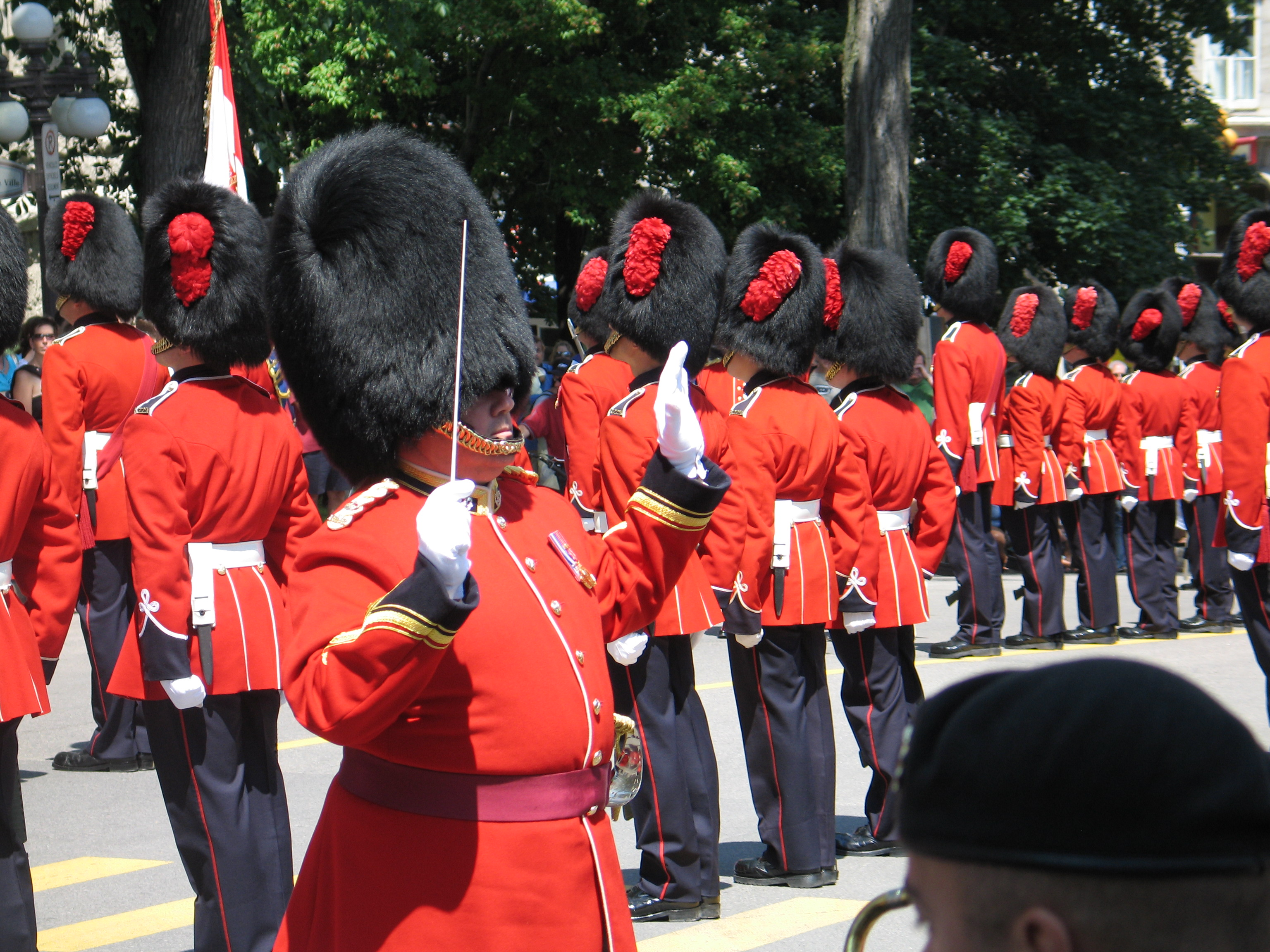 The Royal 22e Régiment of the Canadian Forces exercising its Freedom of the City in front of City Hall, during the celebration commemorating the 398th anniversary of Quebec City, on July 3, 2006.